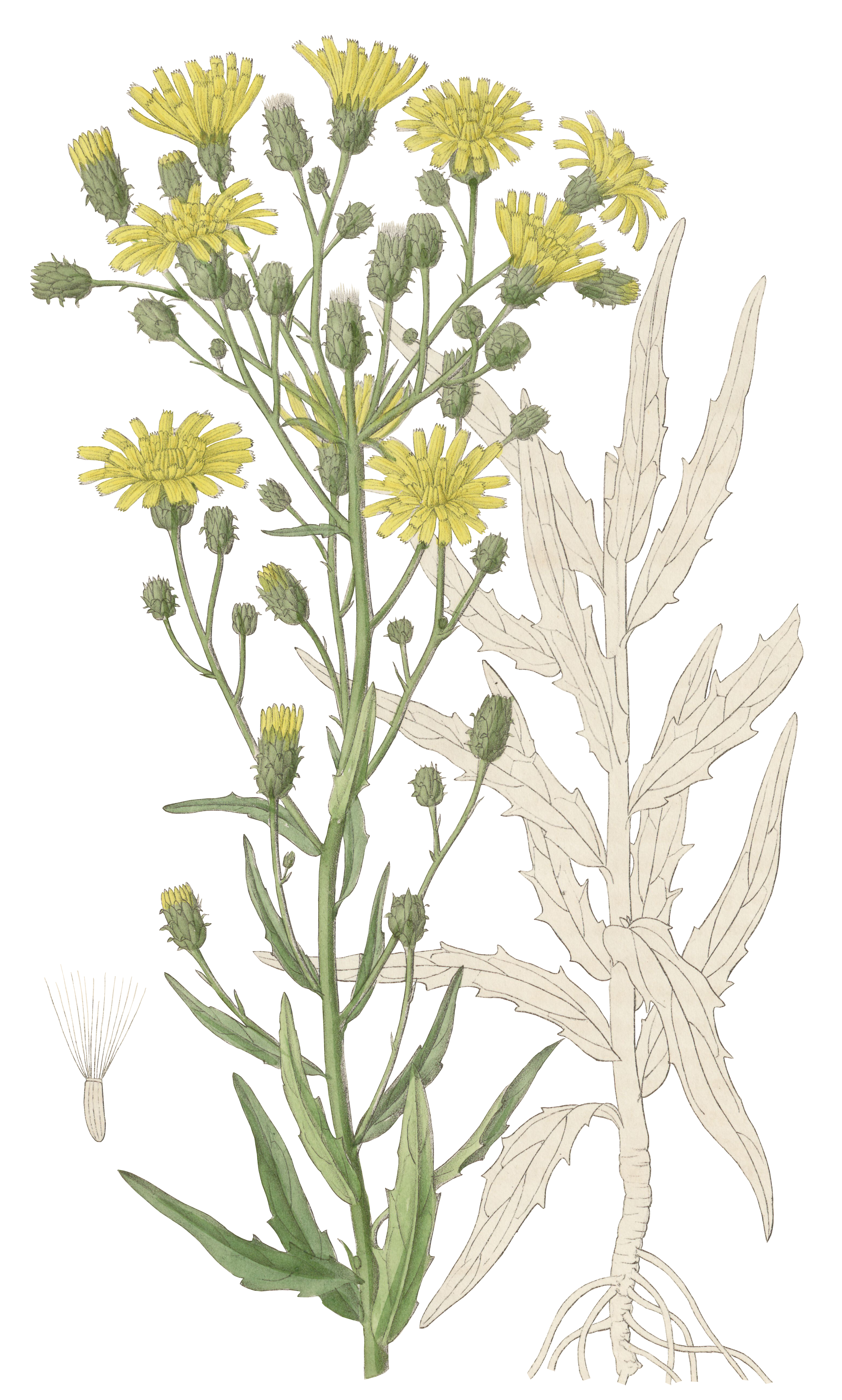 Illustration of Hieracium umbellatum Linné